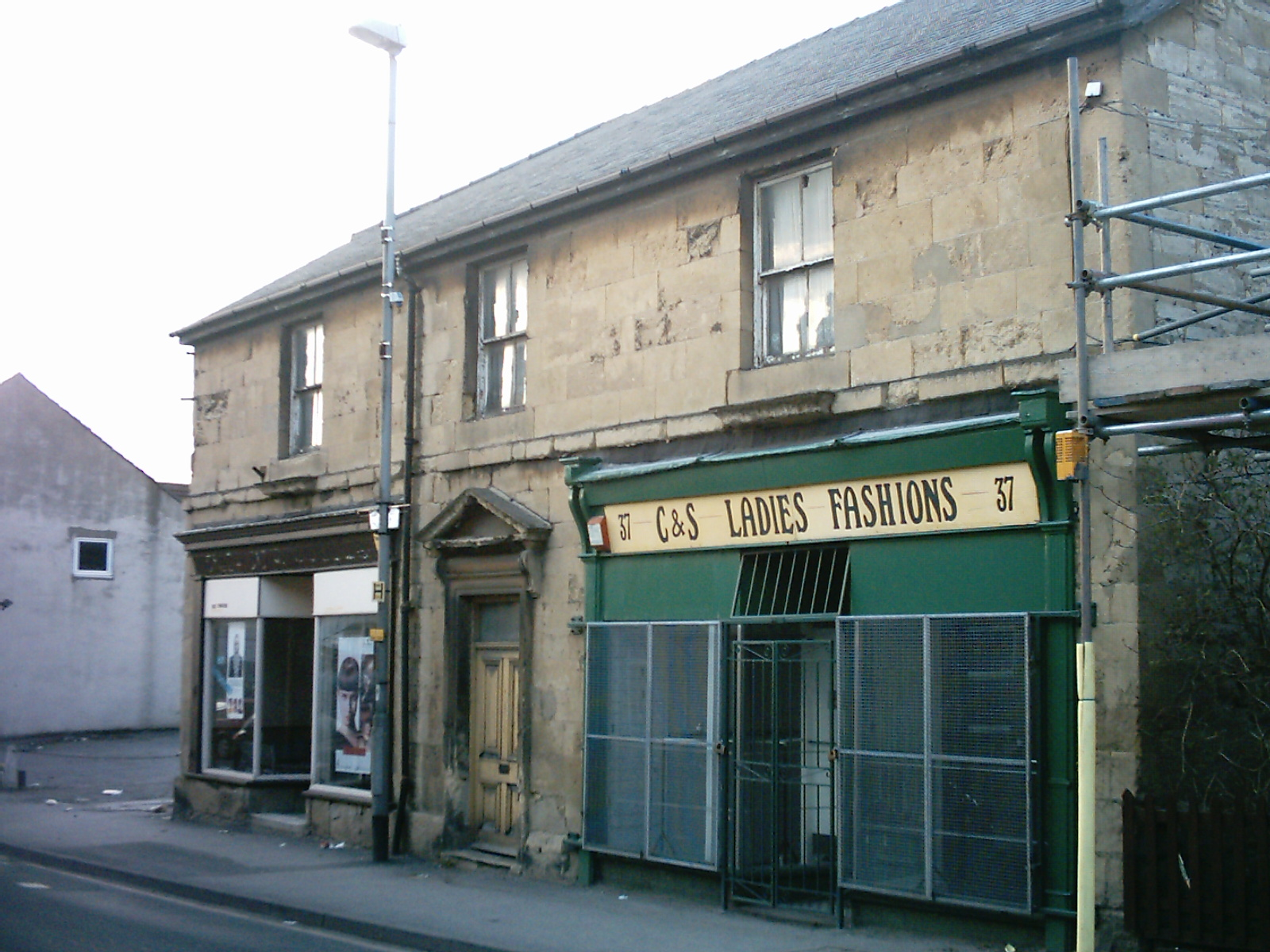 Unoocupied shops on the High Street in Kippax, West Yorkshire. Taken on the evening of the 1st April 2009.